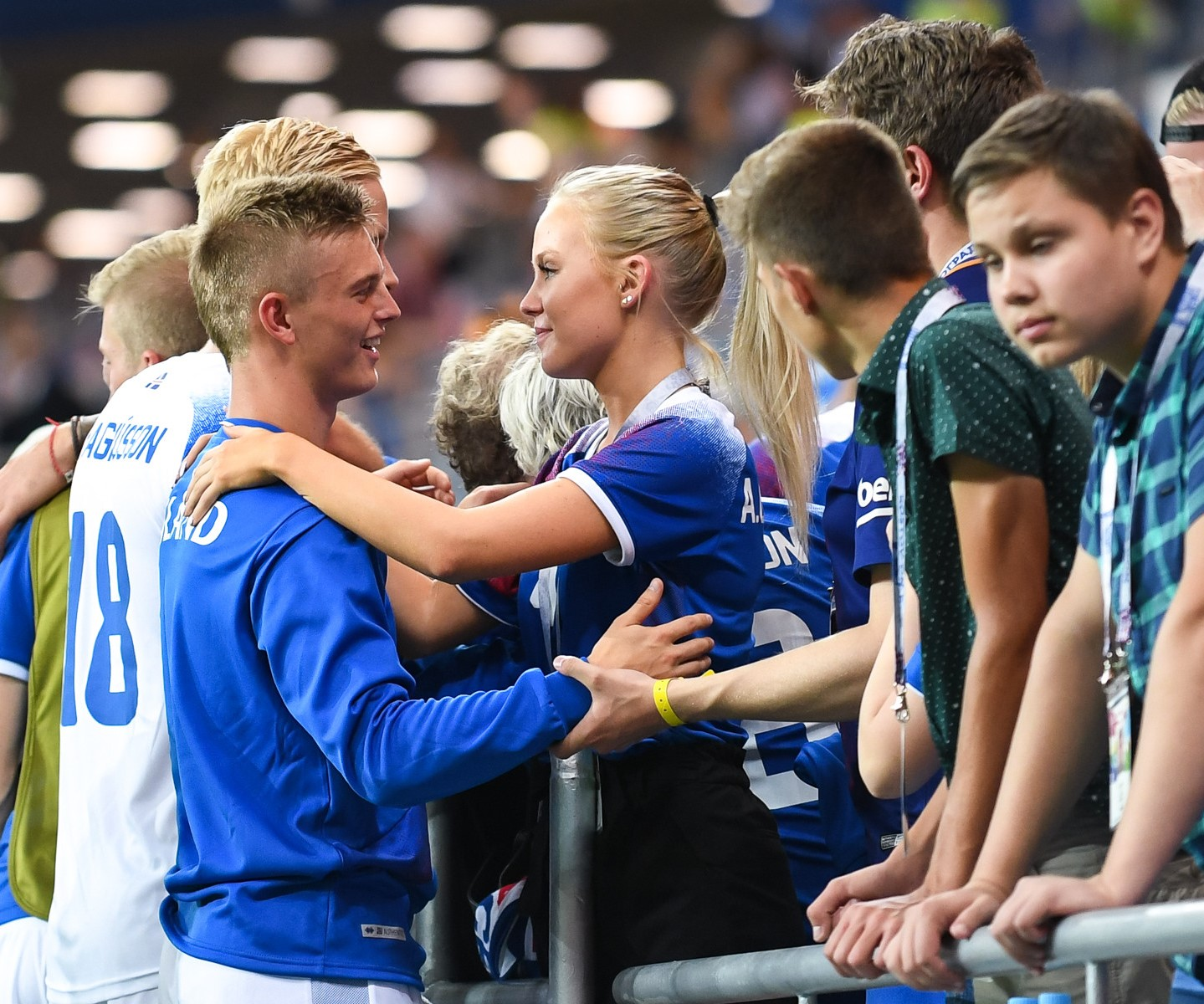 Iceland and Croatia match at the FIFA World Cup 2018-06-26